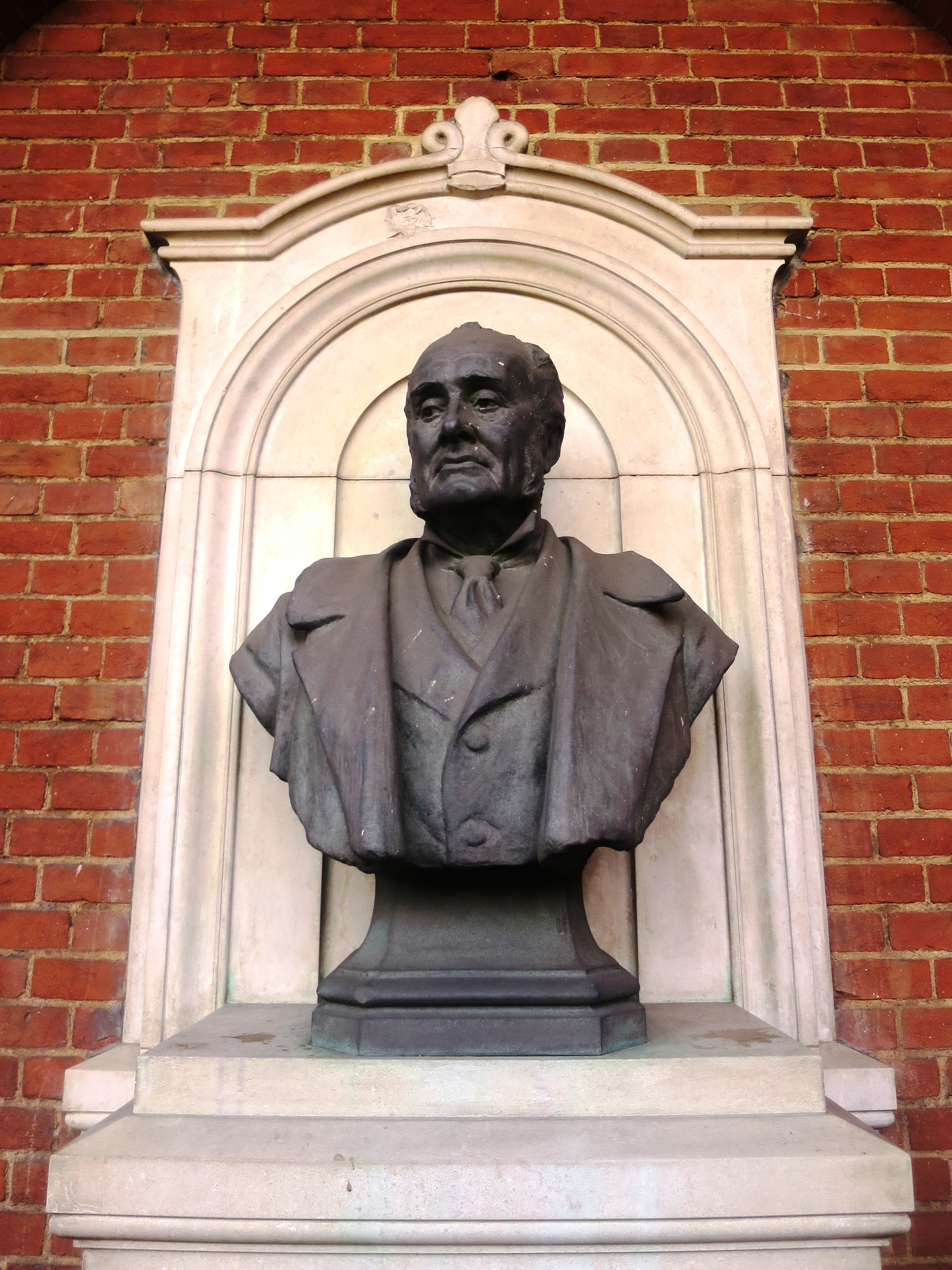 Bust of Sir Clements Robert Markham at the back entrance of Royal Geographical Society